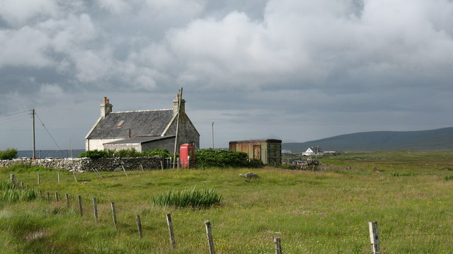 The only call box on Baleshare, beside a croft house.